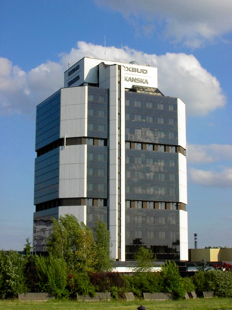 Exbud headquarters, Kielce, Poland, 2003 yr. Aparat/Camera: Premier DC-2350